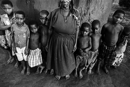 Aids orphans taken in South Africa by Paul Weinberg